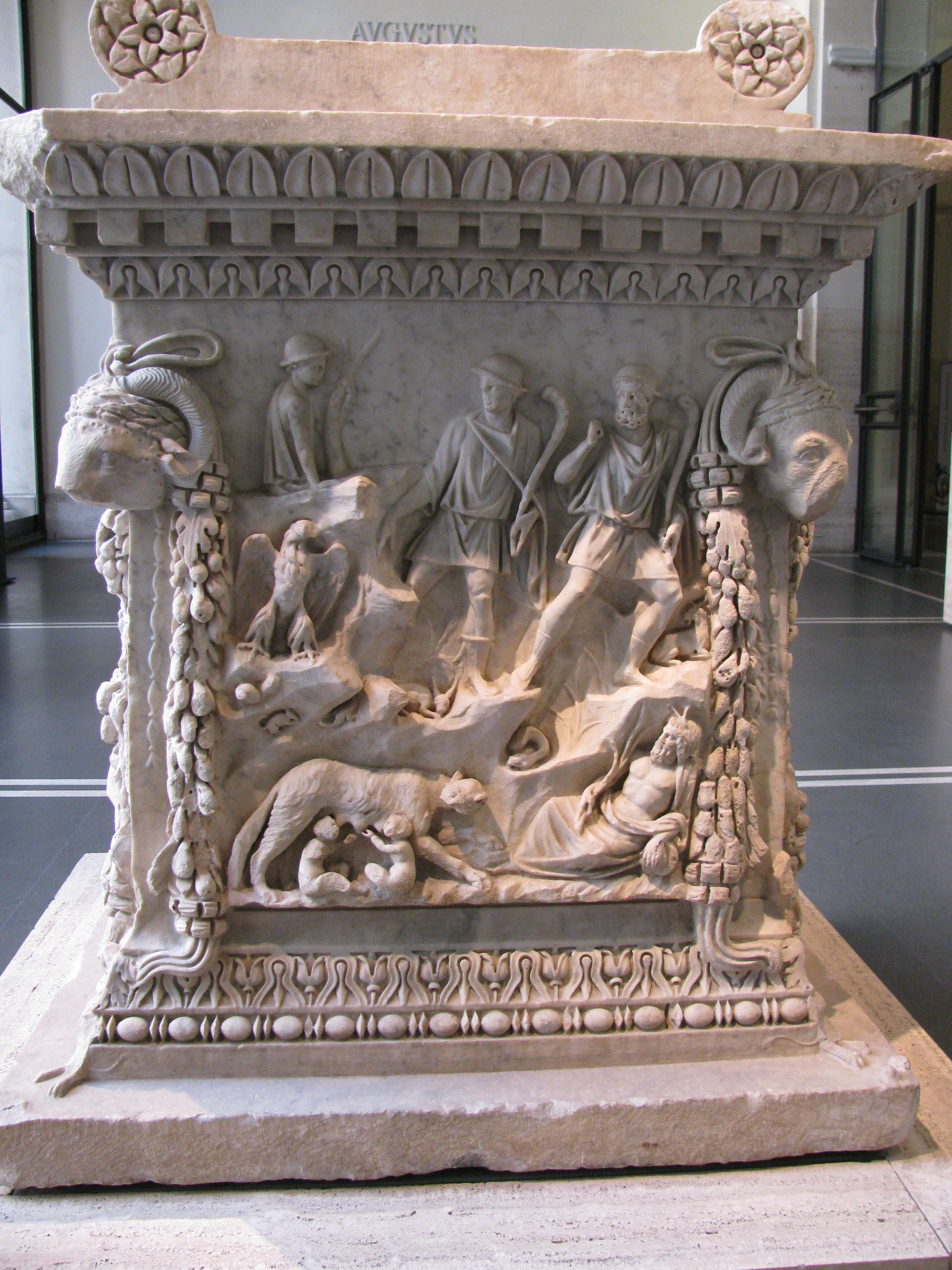 Altar of Mars and Venus, back side with representation of the lupercal: Romulus and Remus fed by the she-wolf, Lupa, surrounded by representations of the Tiber and the Palatine. Panel from an alter dedicated to the divine couple of Mars and Venus. Marble, Roman artwork of the end of the reign of Trajan (98-117 CE), later re-used under the Hadrianic era (117-132 CE) as a base for a statue of Silvan. From the portico of the Piazzale dei Corporazioni in Ostia Antica. Shown in museum of Palazzo Massimo alle Terme (Rome).